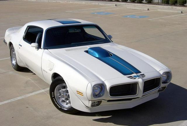 Pontiac Trans Am 1970 455 HO